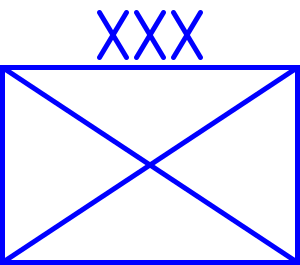 Standard NATO code for a friendly army corps.